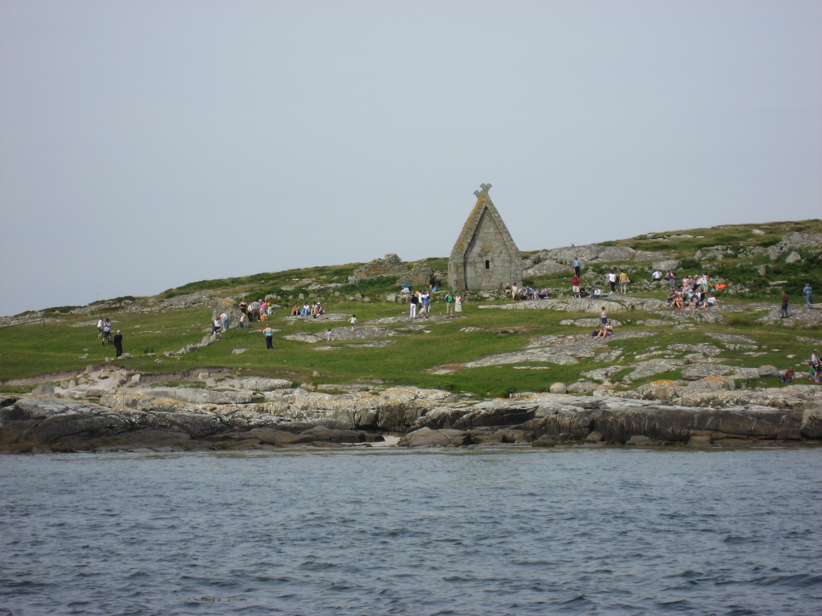 16th of July 2006